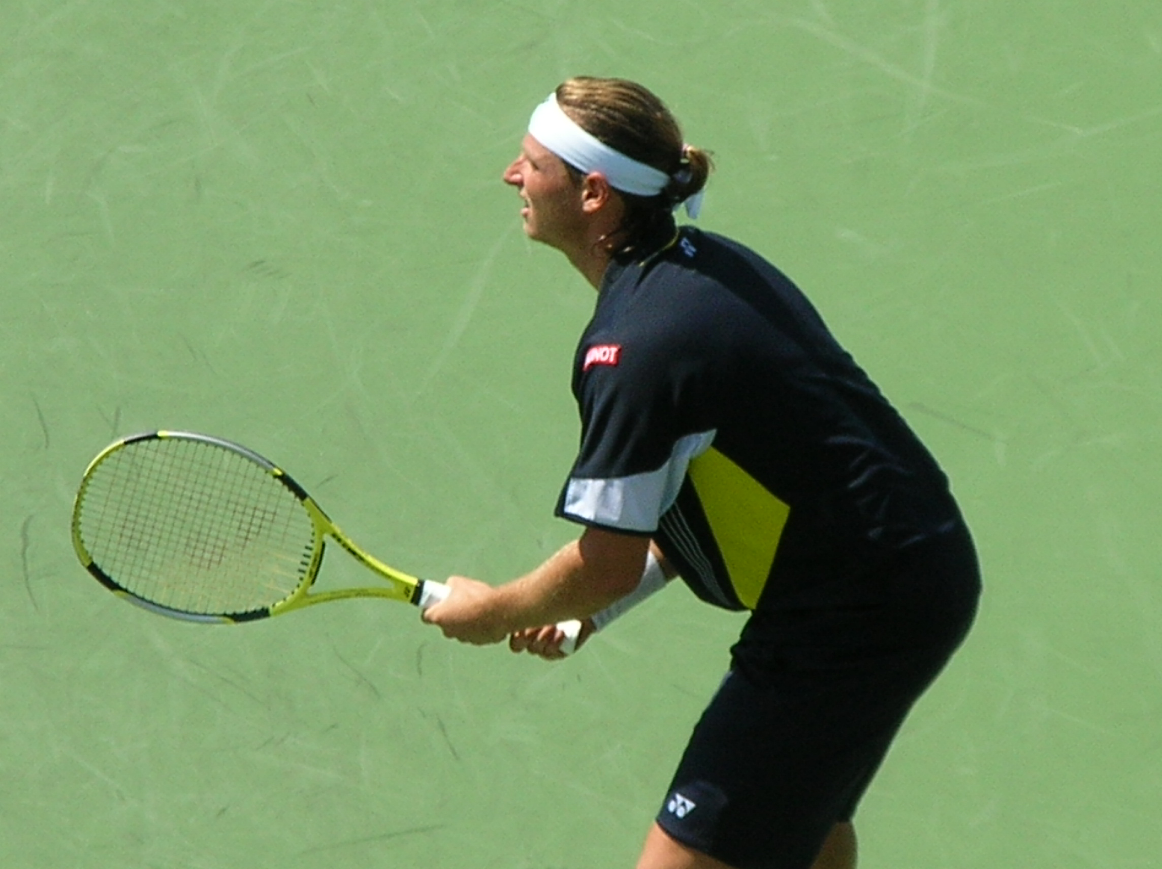 Argentine tennis player David Nalbandian in the 2006 US Open.